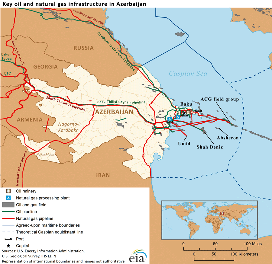 Key oil and natural gas infrastructure in Azerbaijan